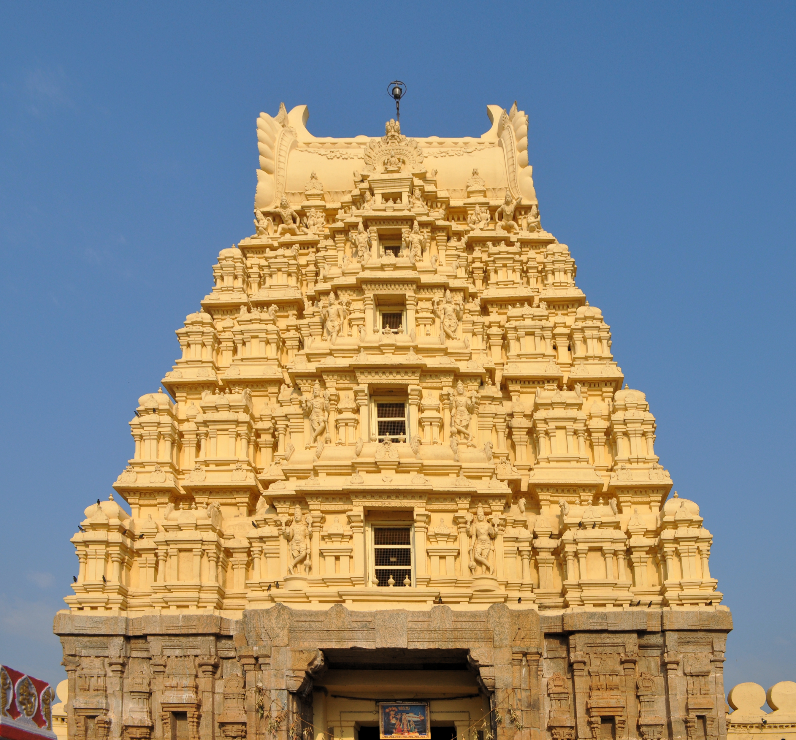 Sri Ranganathaswamy Temple, Srirangapatna, Karnataka, India